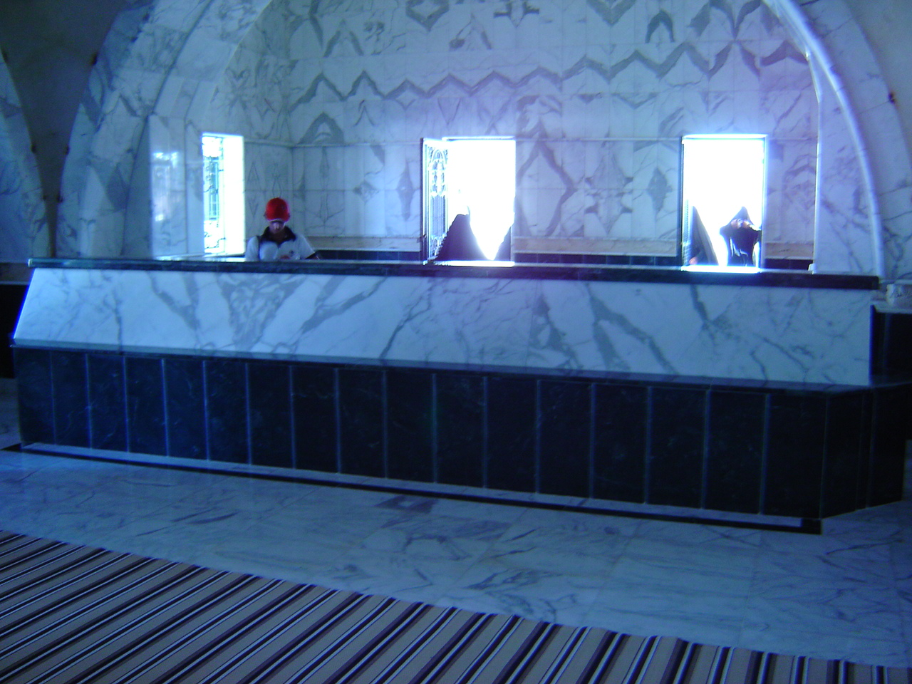 Nabi Habeel Mosque: Tomb of Abel son of Adam and Eve, Syria